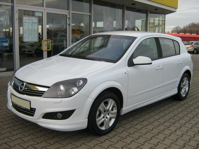 Currently Opel Astra